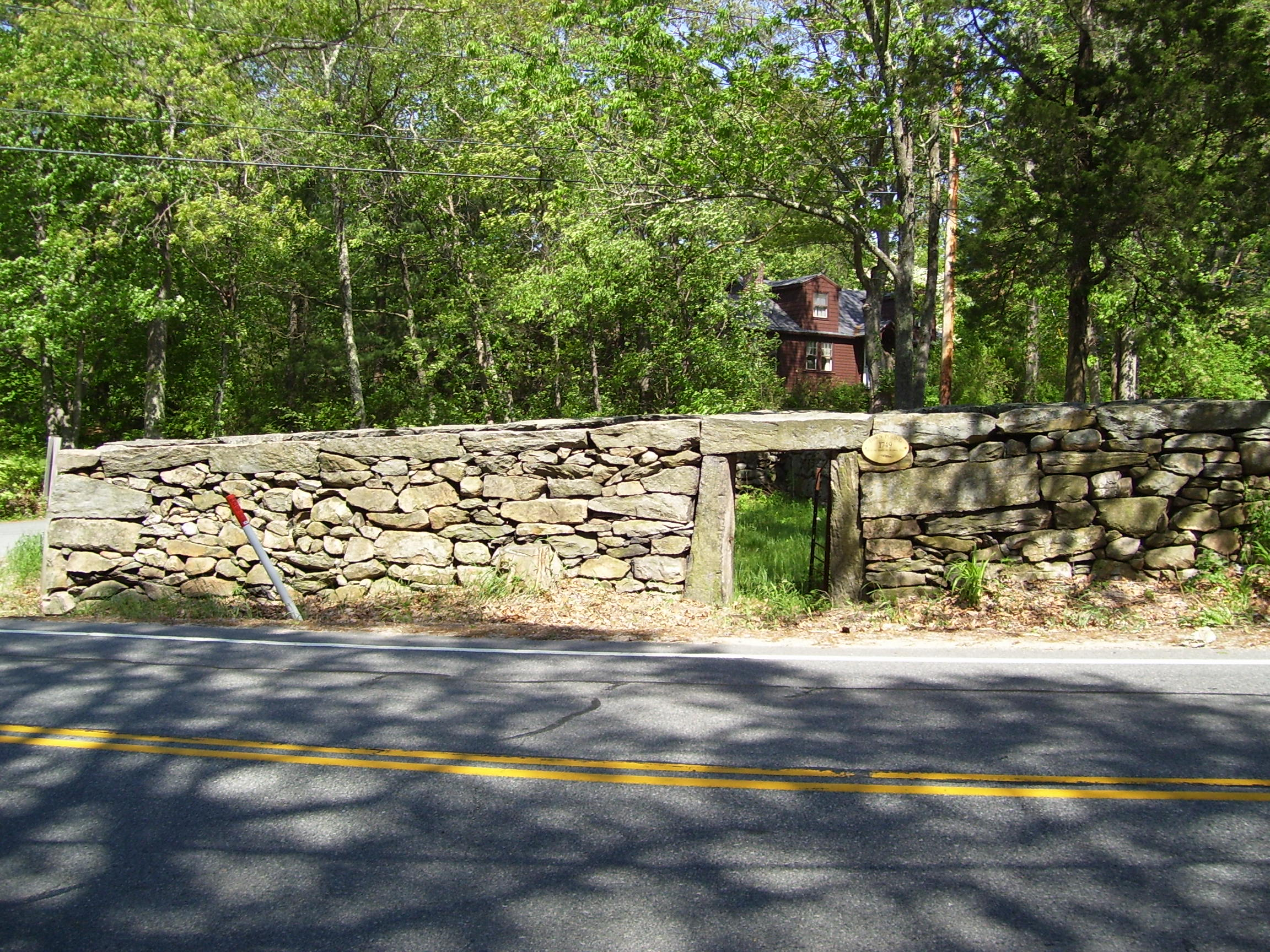 This is my 2008 photo of the Glocester Town Pond in Glocester, Rhode Island.